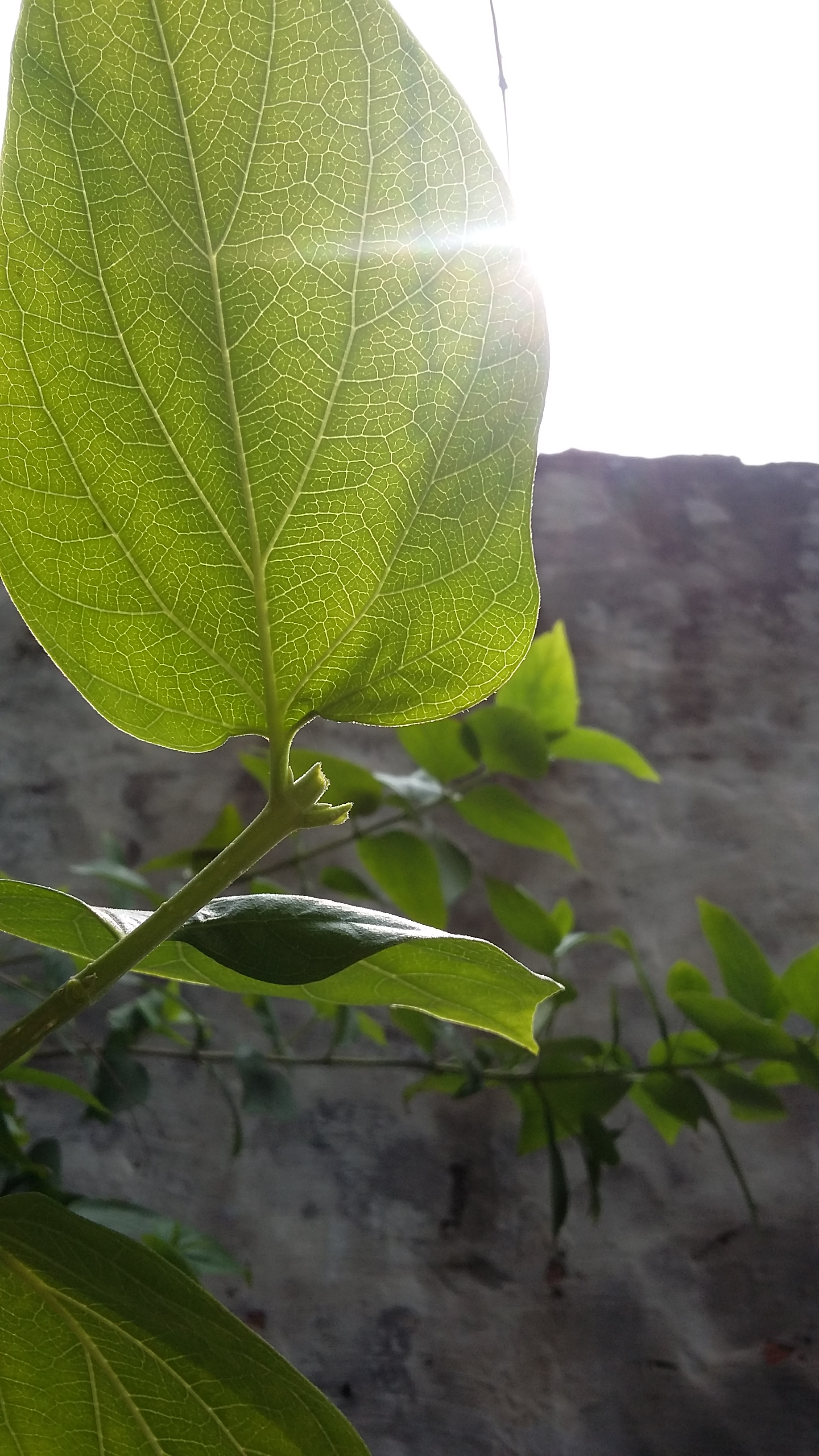 veins of leaves 3 ਪੰਜਾਬੀ: ਪਤਿਆਂ ਦੀਆਂ ਨਾੜੀਆਂ ੩